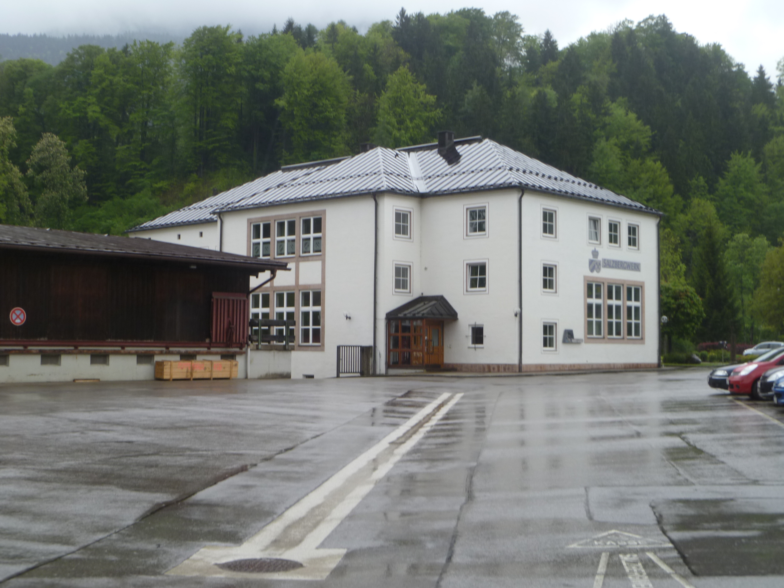 Salt mine Salzbergwerk at Berchtesgaden, Germany